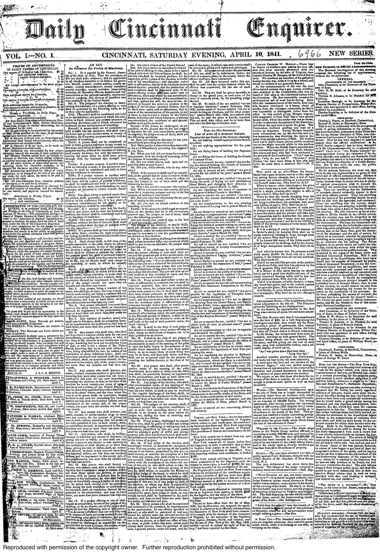 Front page of the Daily Cincinnati Enquirer on April 10, 1841.